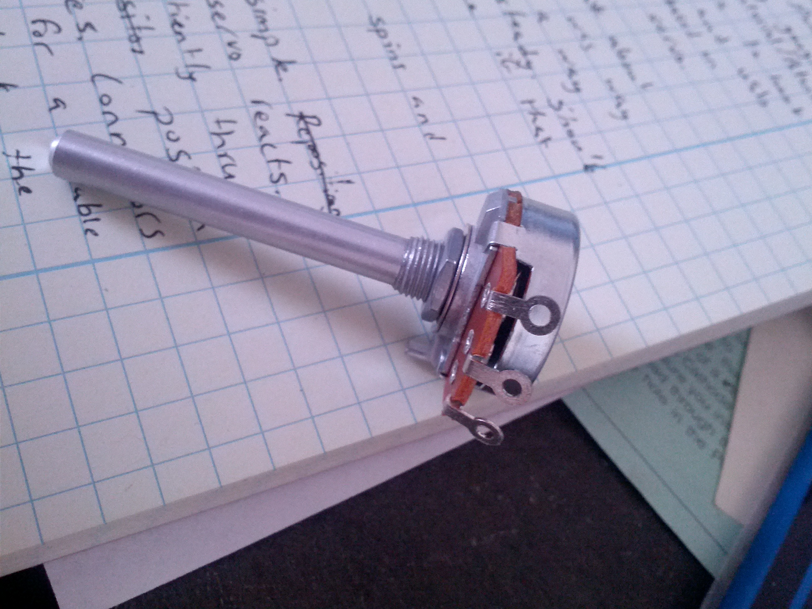 personal potentiometer